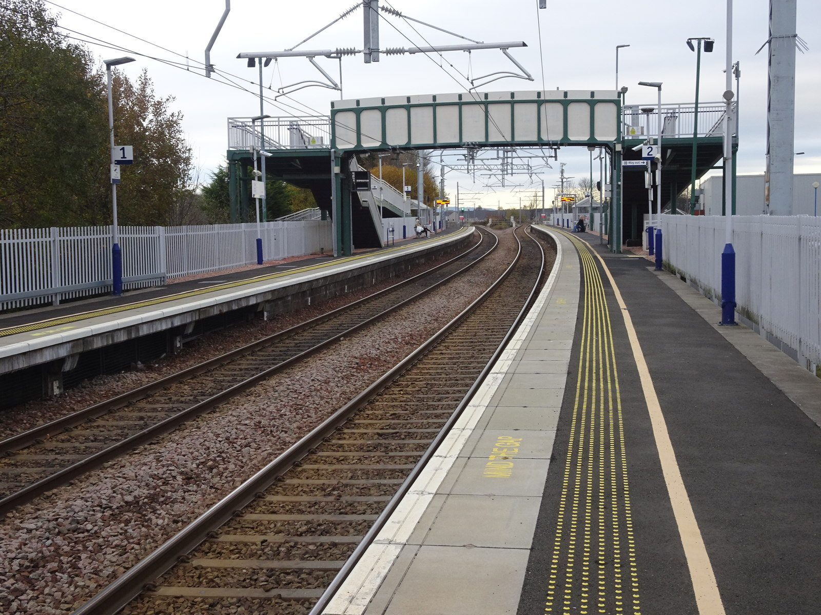 Camelon railway station, Falkirk, Stirlingshire